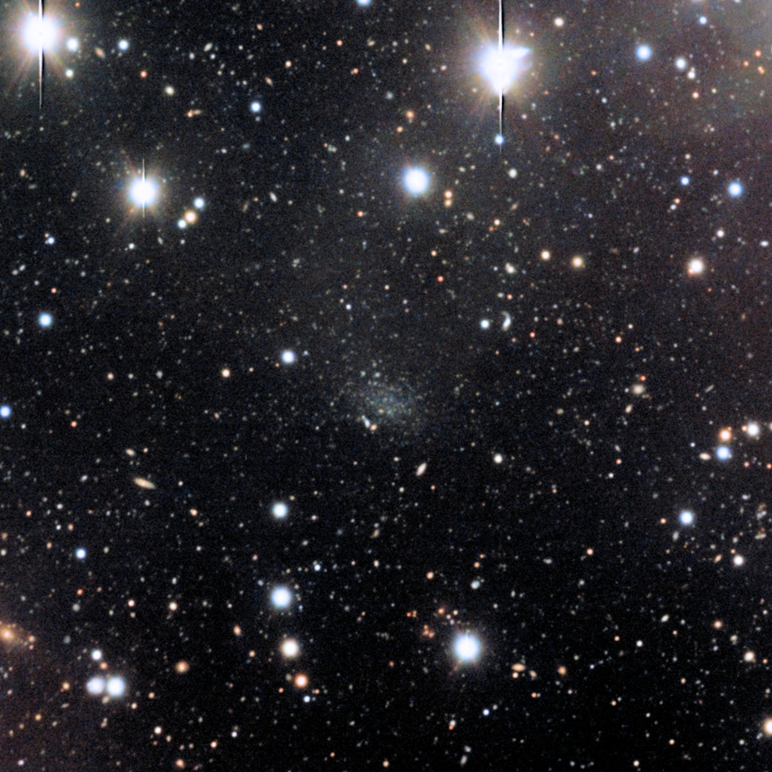 Credit: Telescopio Nazionale Galileo - TNG/DOLORES/ Walter Boschin, Giuseppe Donatiello, David Martínez-Delgado Donatiello I (Do I) was found on 23 September 2016 in a deep wide field amateur image of the Andromeda galaxy region obtained from the composition of a set of images taken during several years with a refractor ED127mm by the italian amateur astronomer Giuseppe Donatiello. The main purpose of this wide-field mosaic of the area between M31 and M33 was to detect the stellar streams and M31 satellites previously reported in the PAndAs. The detection was confirmed by a visual inspection of the SDSS DR9 images and follow-up observations using the professional facilities TNG and GTC (La Palma, Spain). Martínez-Delgado et al.: Mirach’s Goblin: Discovery of a dwarf spheroidal galaxy behind the Andromeda galaxy